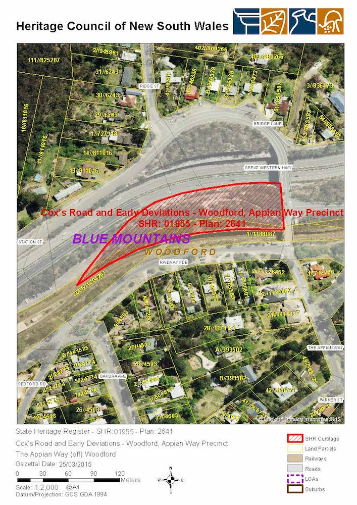 Cox's Road and Early Deviations - Woodford, Appian Way Precinct: SHR 1955. Heritage Council Plan 2641. Cox's Road and Early Deviations: Woodford, Appian Way Precinct - satellite view.